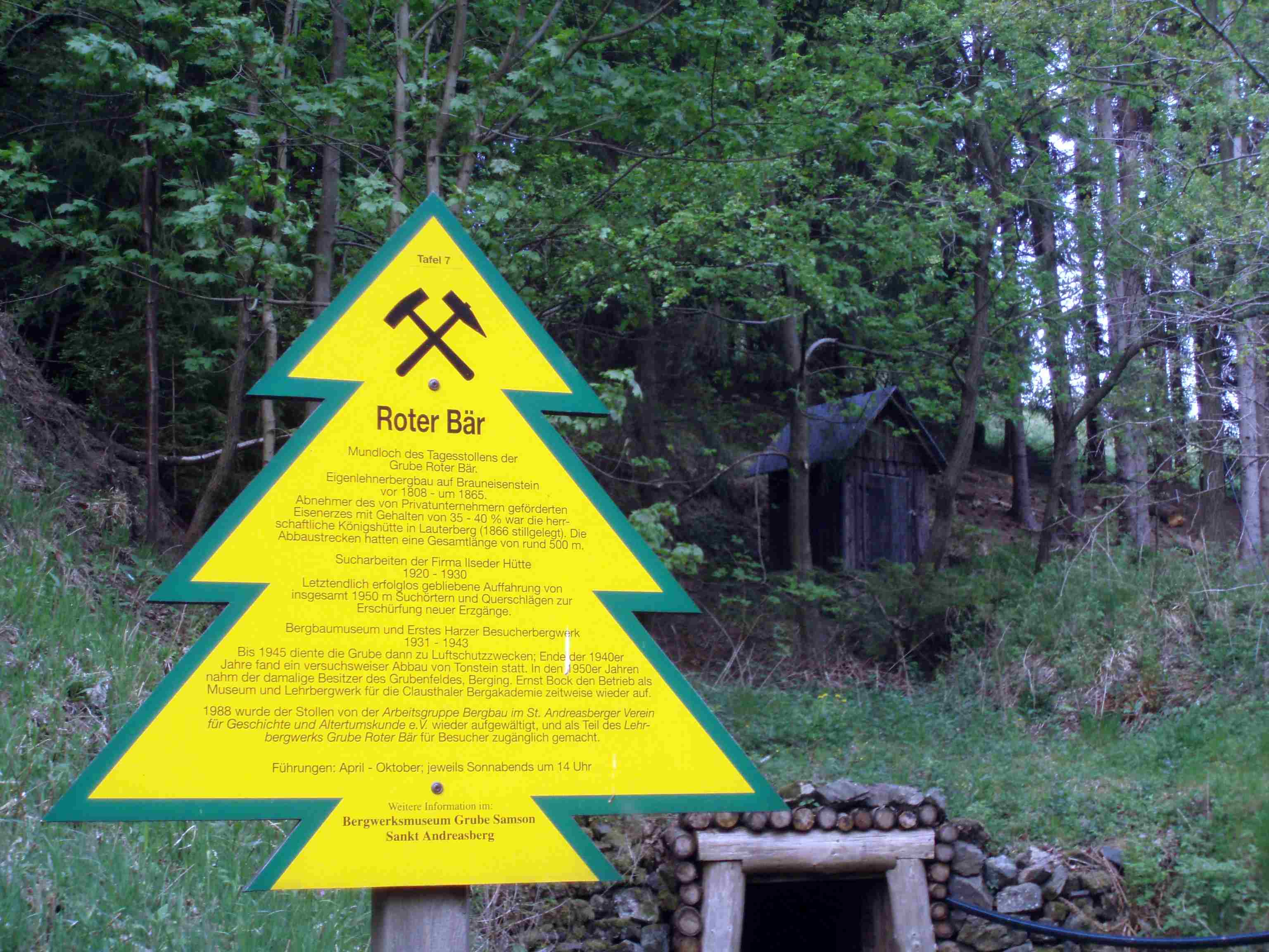 Dennert Fir Tree at the entrance of Roter Bär Pit in Sankt Andreaberg